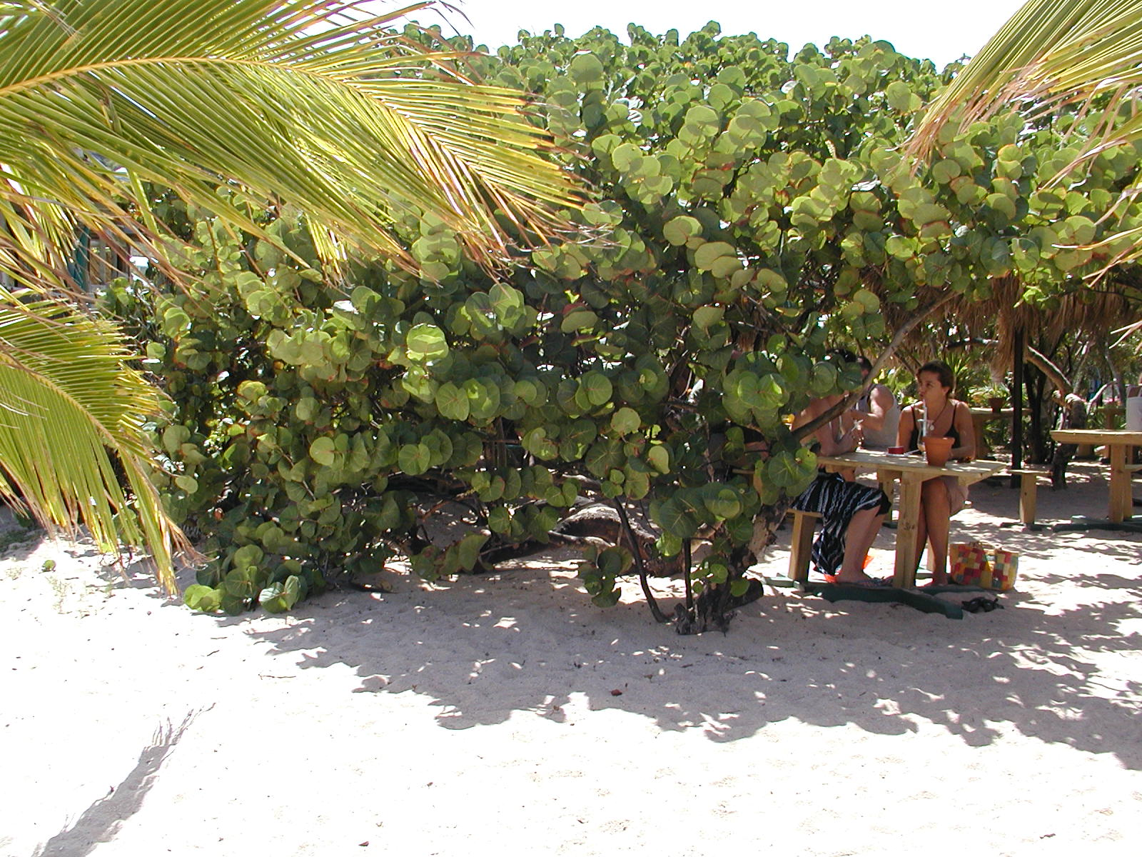 Baie de Saint-Jean, St. Barts